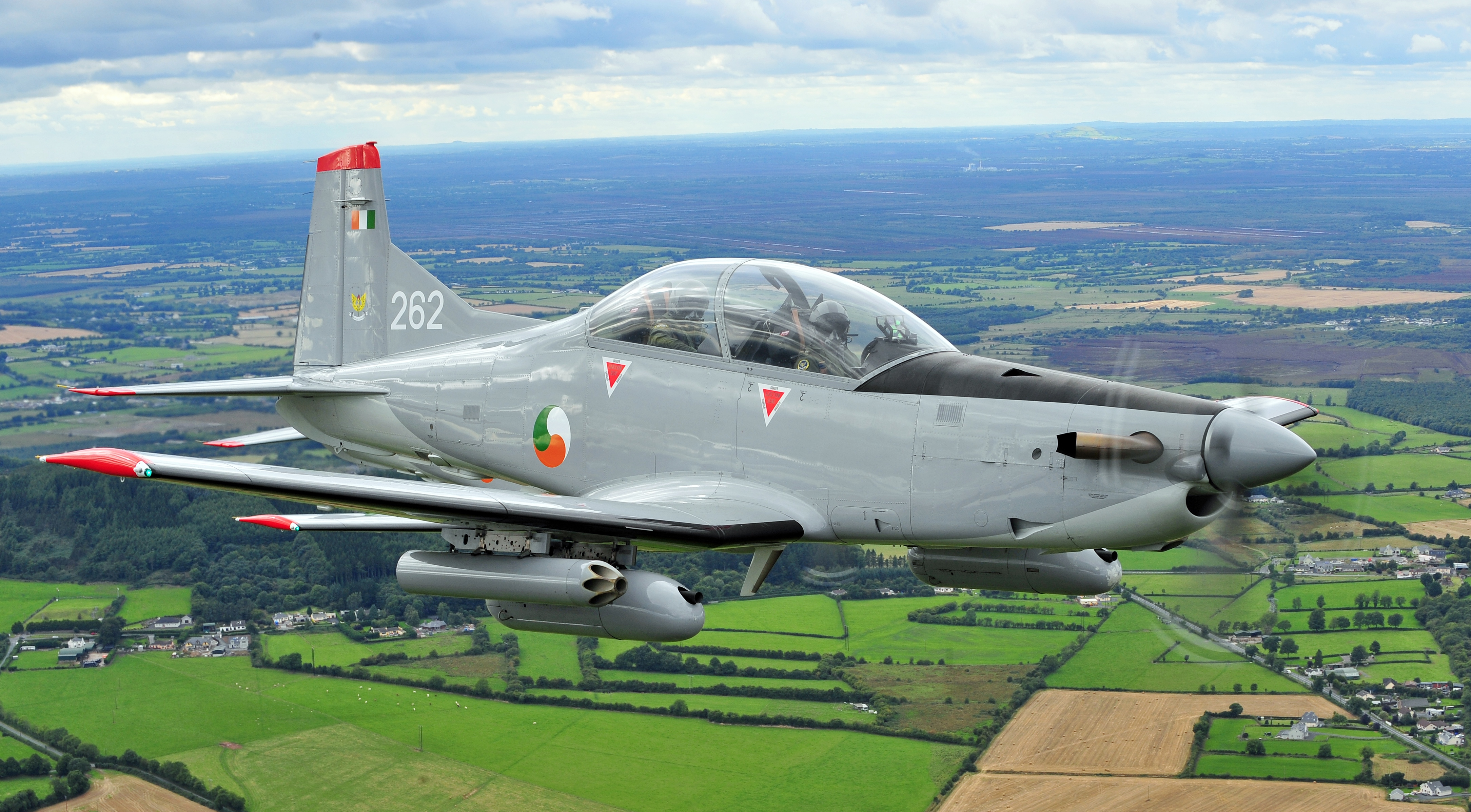 Pilatus PC-9 of the Irish Air Corp flying in formation